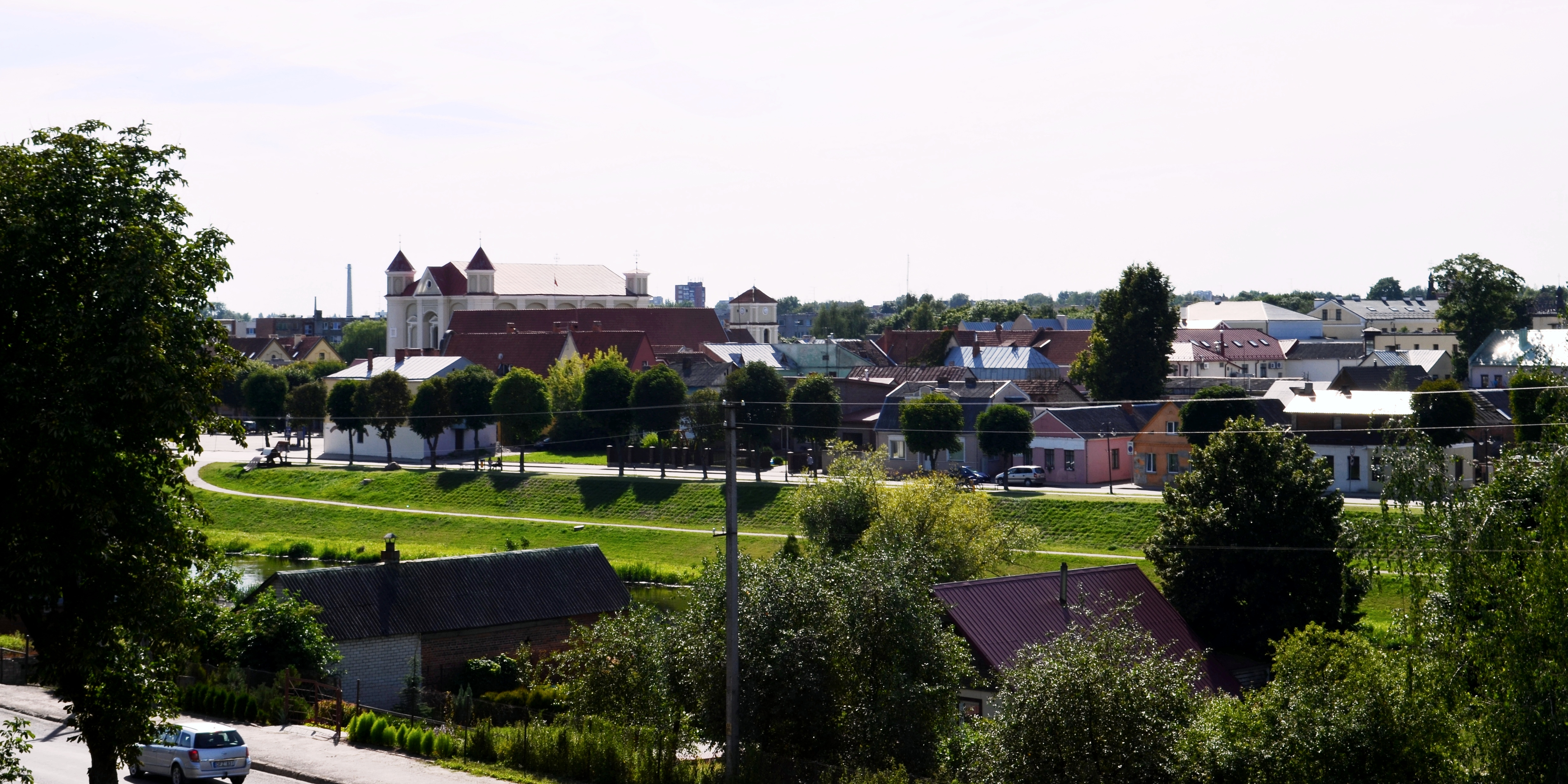 Kėdainiai old town